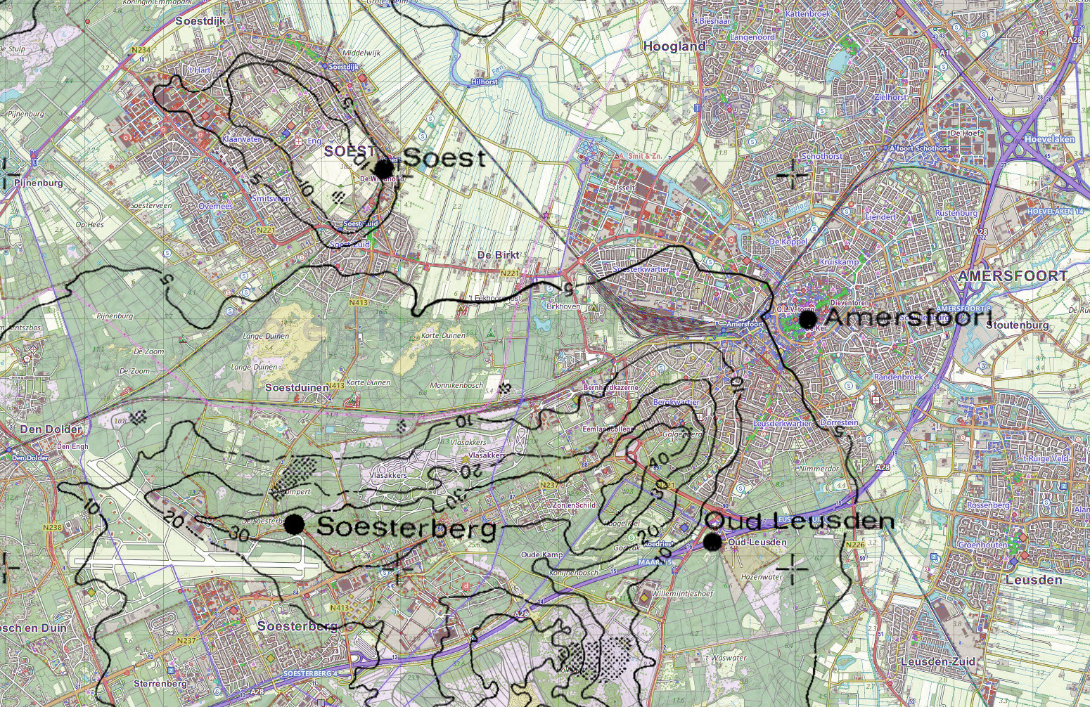 Topographic view of area between Soest and Amersfoort (Netherlands) with altitude lines.